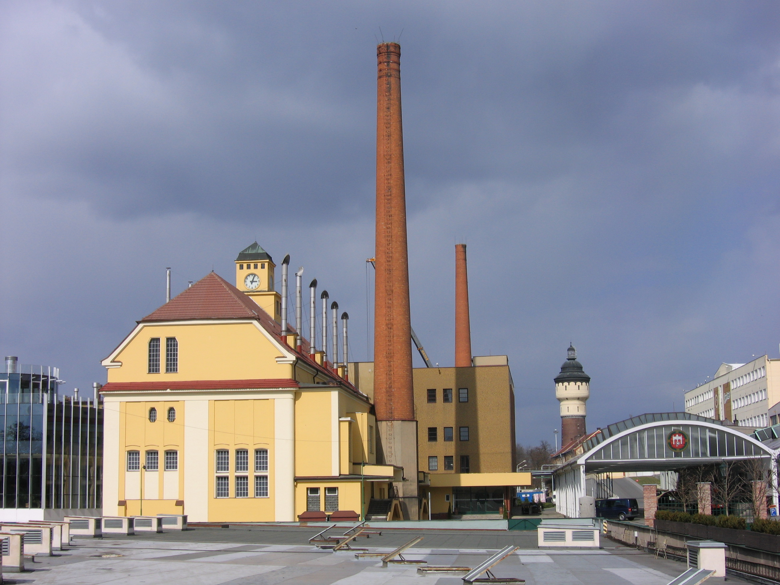 City of Plzeň, Czech Republic. Pilsen, Tschechien. Brewery of Pilsen beer.